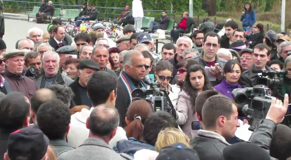 2013 Armenian presidential election protests